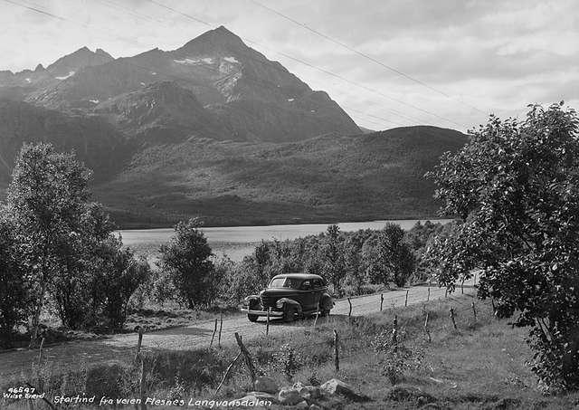 Towards mount Stortinden from Langvassdalen valley in Kvæfjord, Norway